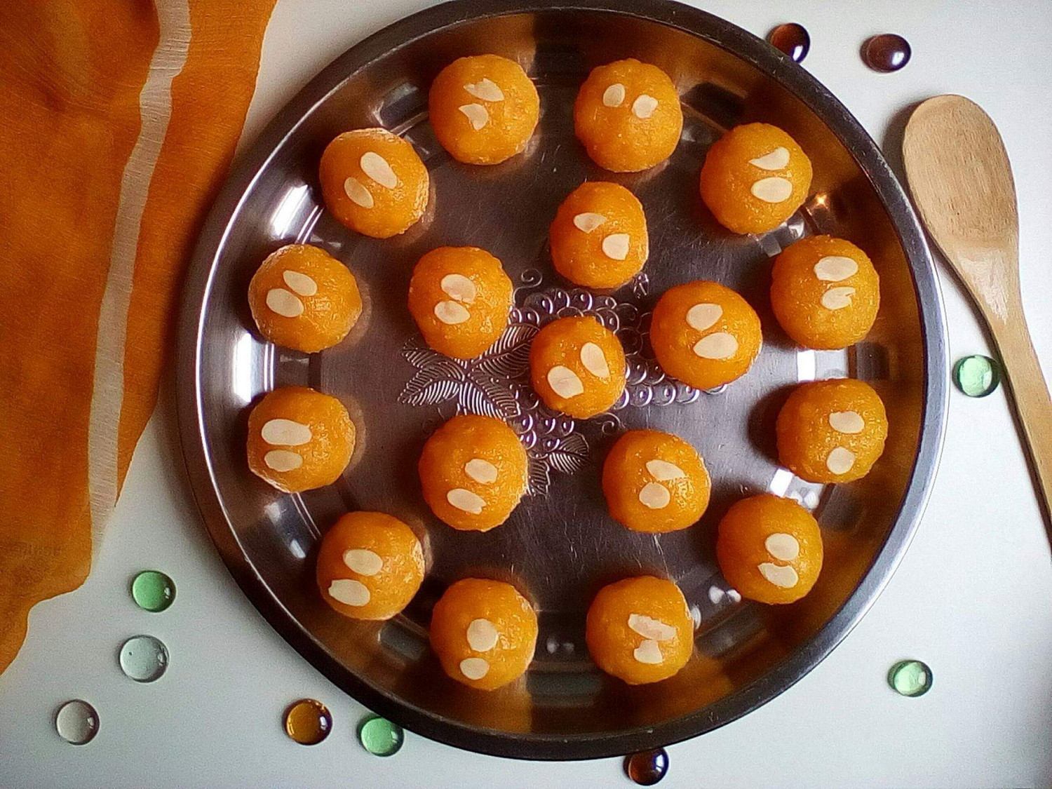 Motichur Laddu